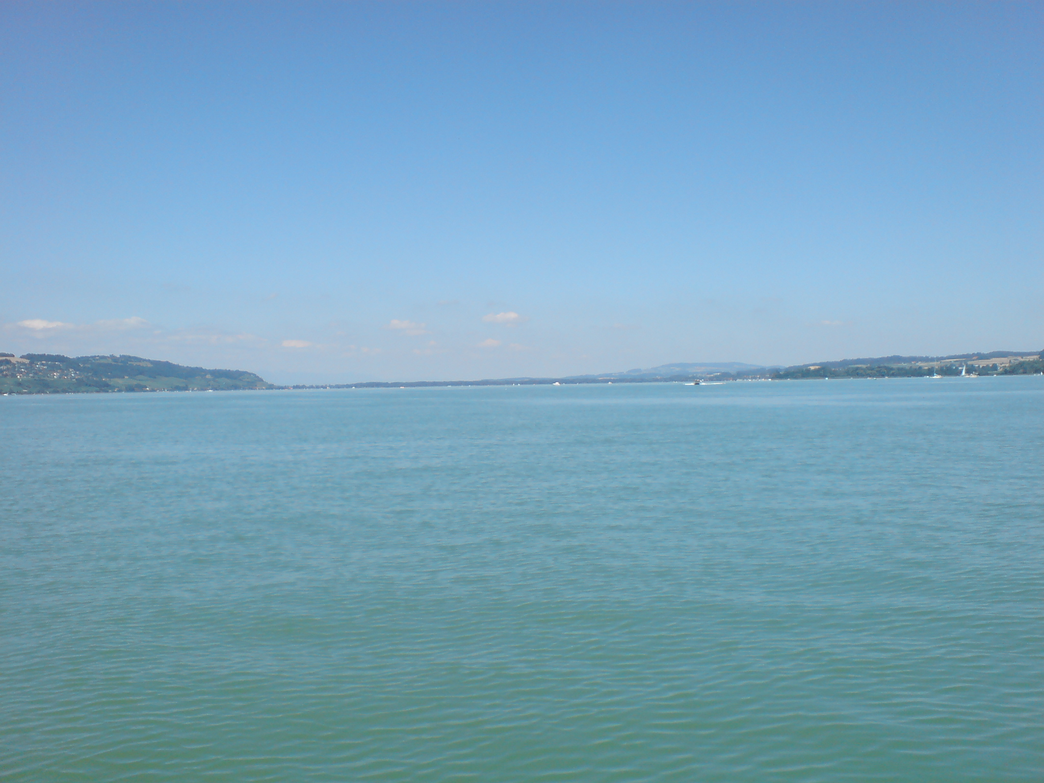 This is a view of the Morat Lake in Switzerland